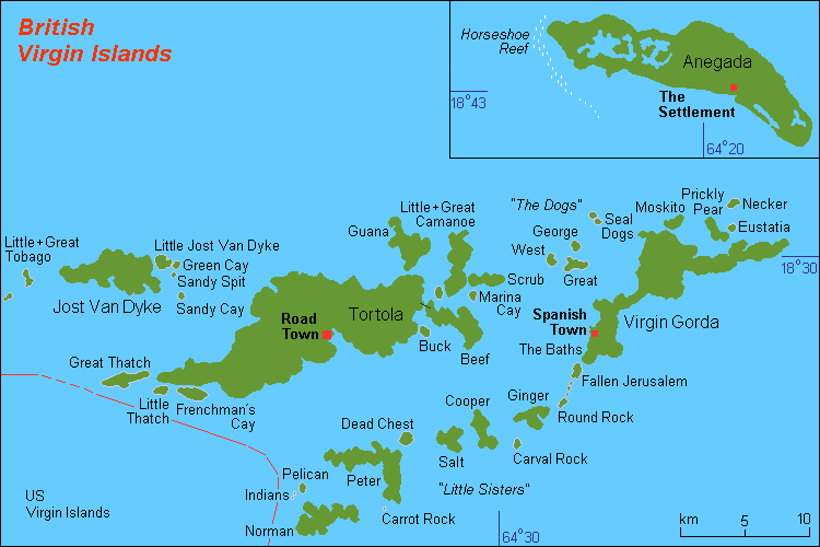 Map (rough) GB Virgin Islands, own work composed from various mapreferences